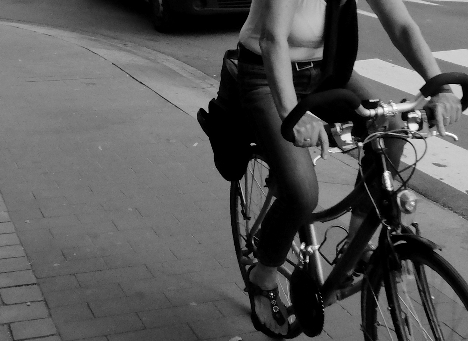 Cyclist passing by, photo by Jules Grandgagnage (Fujifilm X20)